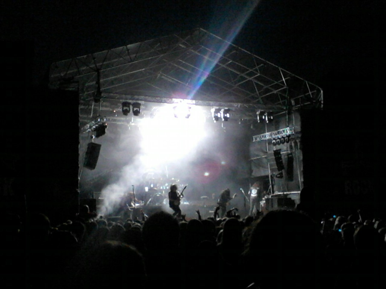 Testament at Hard Rock Laager 2013